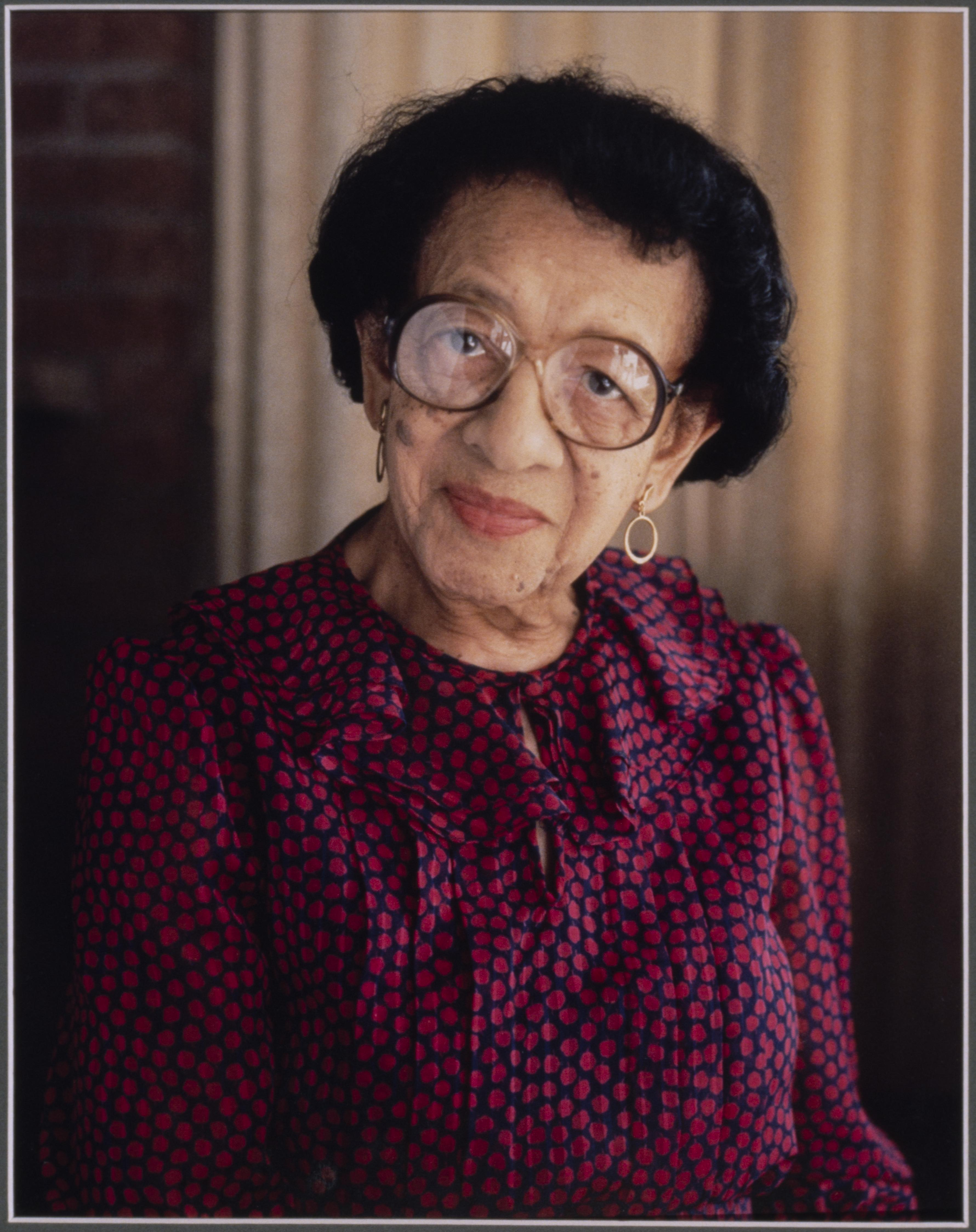 Biography: The eldest of eight children of a farming family in Georgia, Ardie Clark Halyard spent her early days working at home and in the fields. Because her parents, William and Annie Louise Jeter Clark, were determined that their children should receive good educations, she was sent away to grade school and to the high school at Atlanta University. She graduated in 1920 from Atlanta University Teachers' College and soon moved to Wisconsin with her husband, Wilbur Halyard. Although they did not have much money, they immediately began to help her brothers and sisters with their educations. She and her husband founded the Columbia Savings and Loan Association, an organization chartered in 1924 to improve the housing situation for Blacks in the Milwaukee area. During the day, Mrs. Halyard was employed by Goodwill Industries, where she served in several capacities, eventually becoming director of rehabilitation. At night, she donated her clerical skills to the savings and loan association, and after 20 years left Goodwill to work full time as assistant managing director. She has also been secretary/treasurer, managing officer, and chairperson of the board at Columbia. Work in Wisconsin branches of the NAACP and with the United Negro College Fund have figured prominently among Mrs. Halyard's community activities. Description: The Black Women Oral History Project interviewed 72 African American women between 1976 and 1981. With support from the Schlesinger Library, the project recorded a cross section of women who had made significant contributions to American society during the first half of the 20th century. Photograph taken by Judith Sedwick Repository: Schlesinger Library on the History of Women in America. Collection: Black Women Oral History Project Research Guide: Questions?